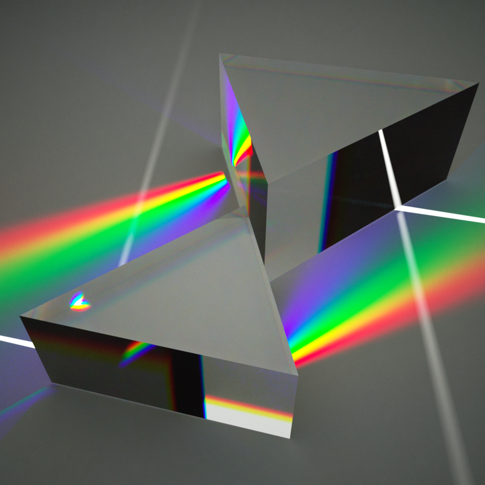 A Prism scene rendered with Indigo Renderer.